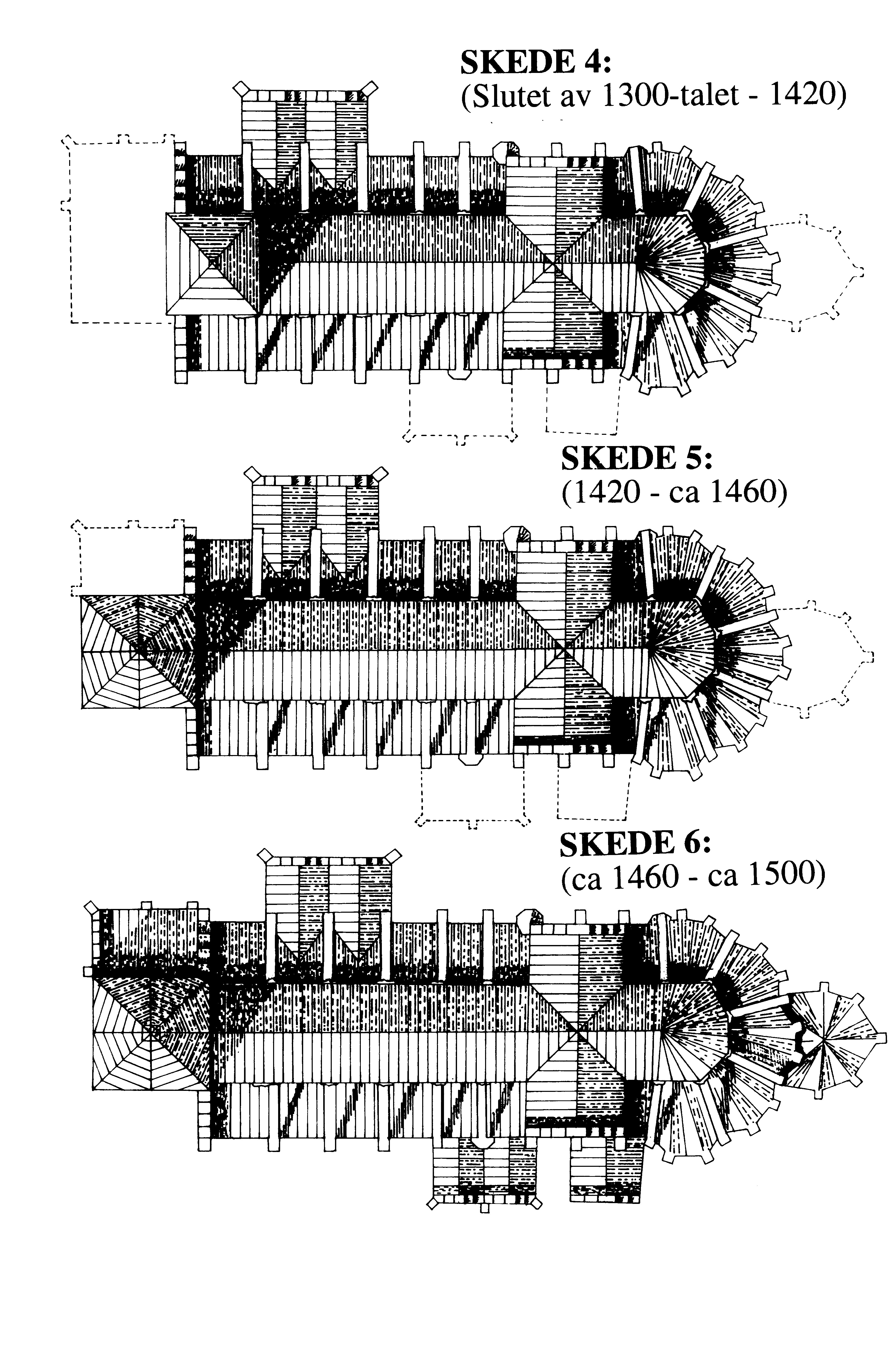 St Peters church in Malmo Sweden. Reconstruction drawings 1380 to 1580.